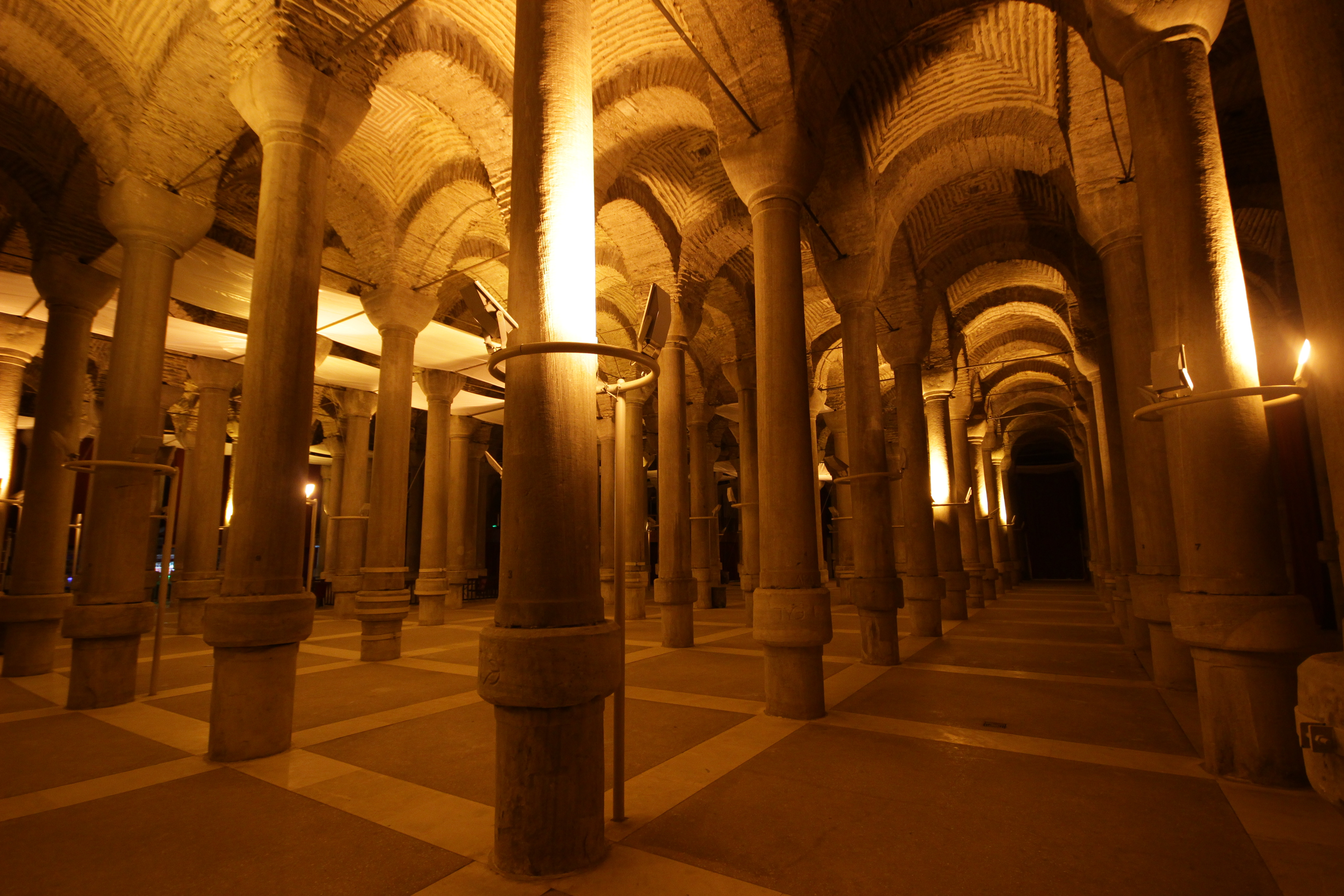 Interior view of the Cystern of Philoxenos